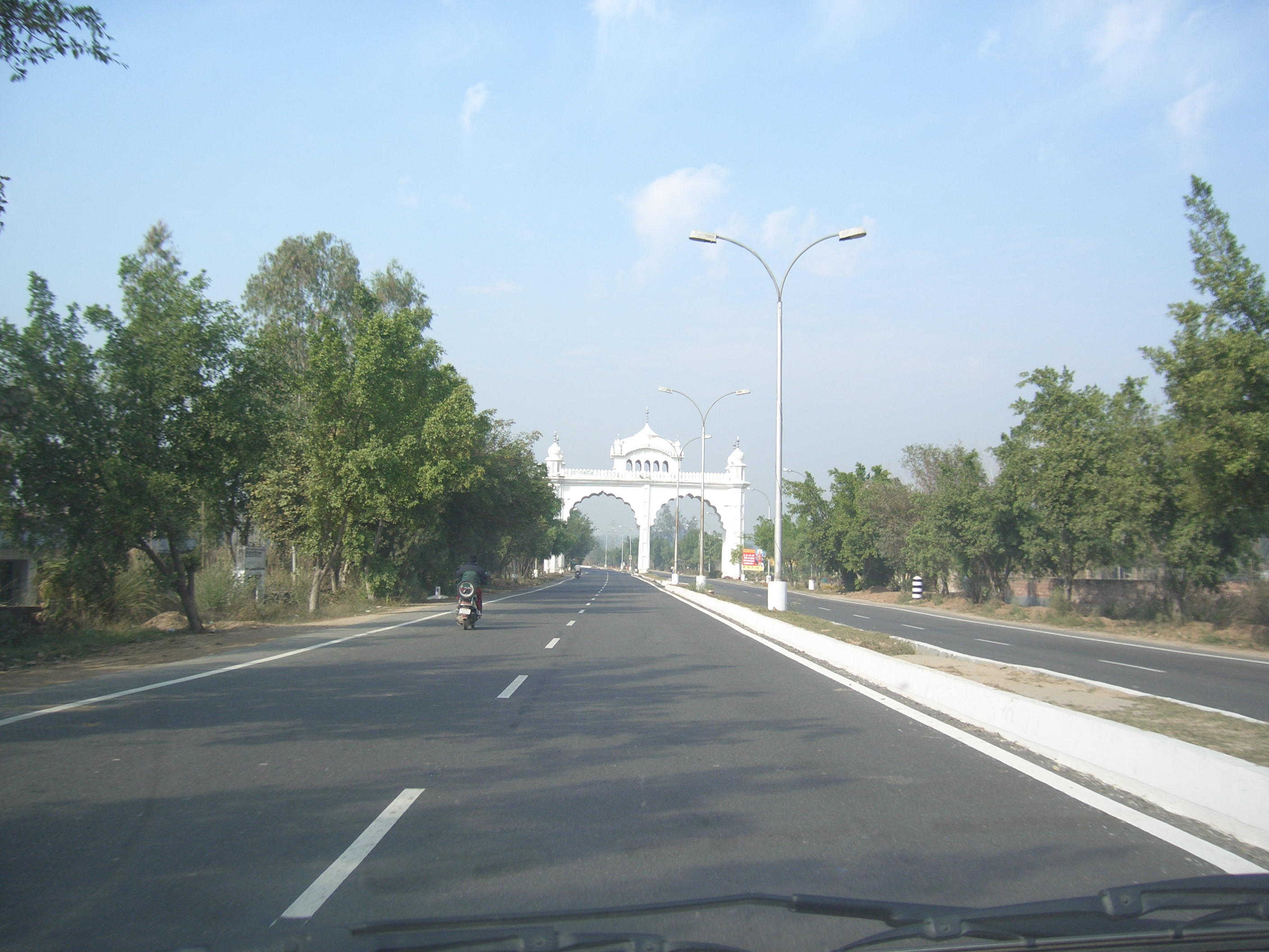 The main road from the south to Keshgarh Sahib approaching the gate to the city. Anandpur Sahib, Punjab, India